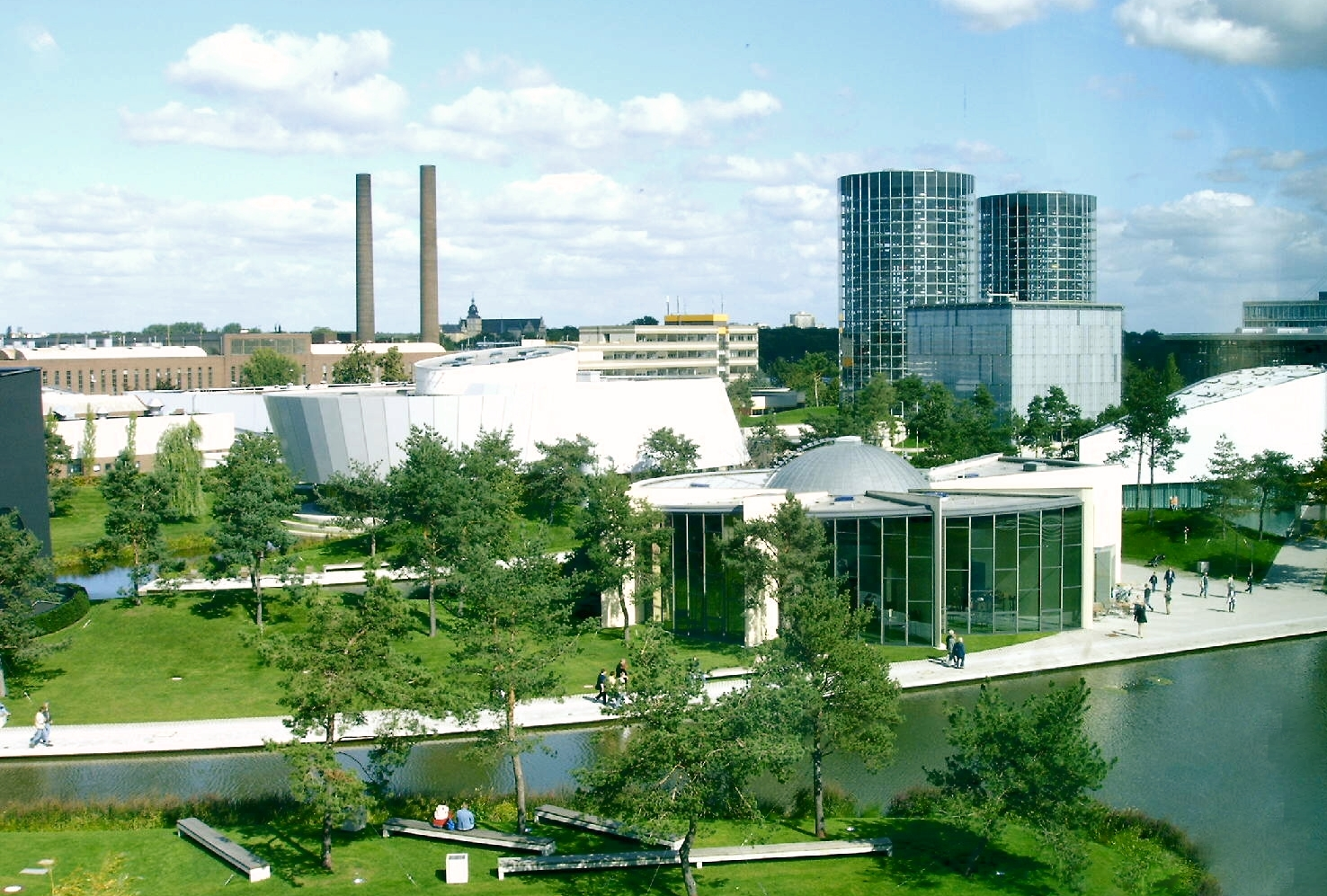 Area of Autostadt Wolfsburg